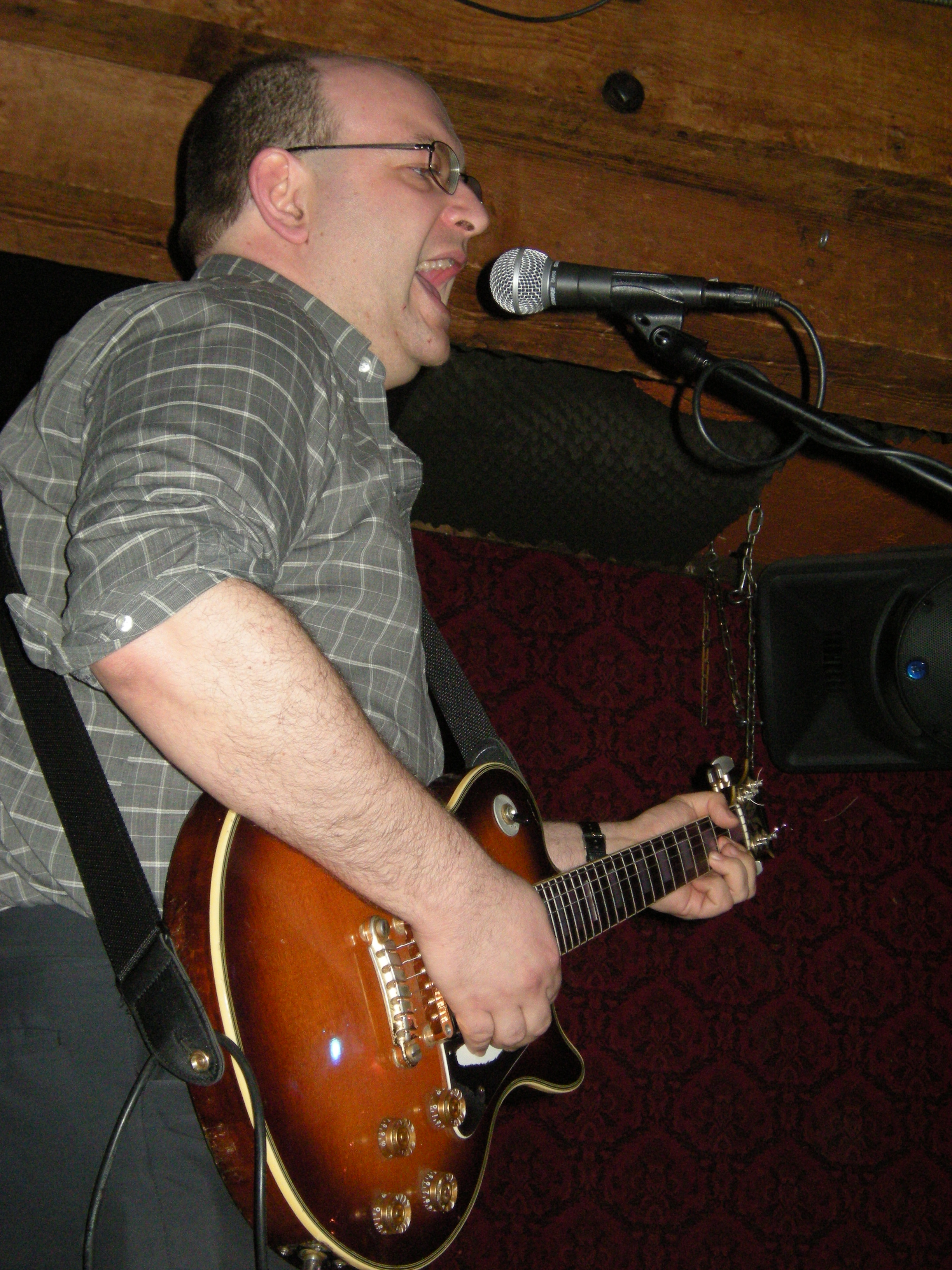 Franklin Bruno performing as part of EMP Pop Conference Night at the Sunset in Seattle's Ballard neighborhood, part of the 2009 Pop Conference, Experience Music Project, Seattle, Washington, U.S.